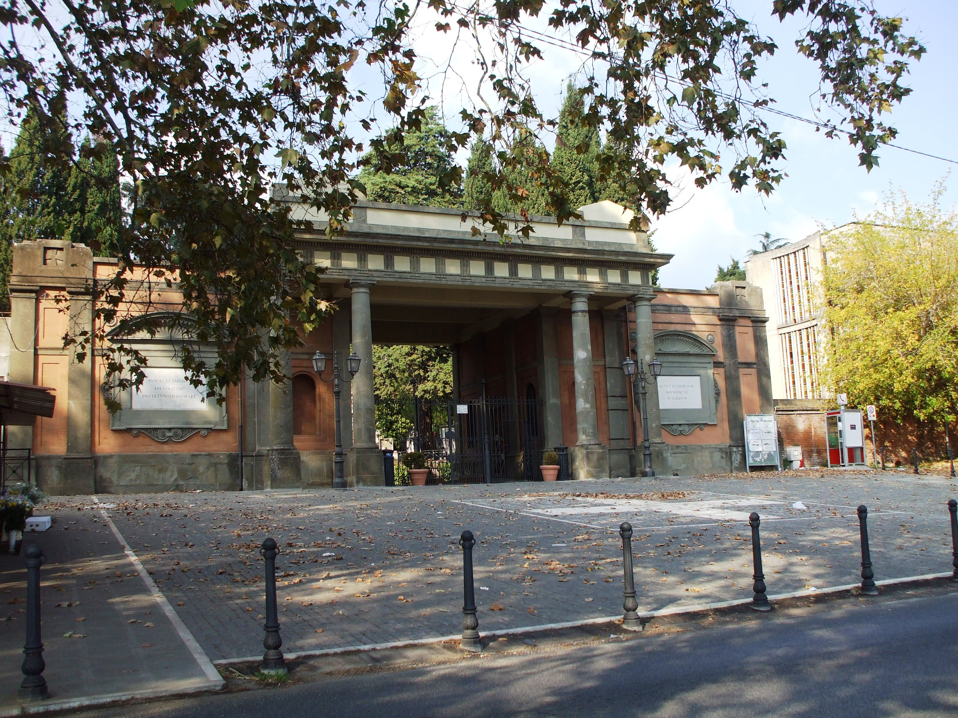 Velletri